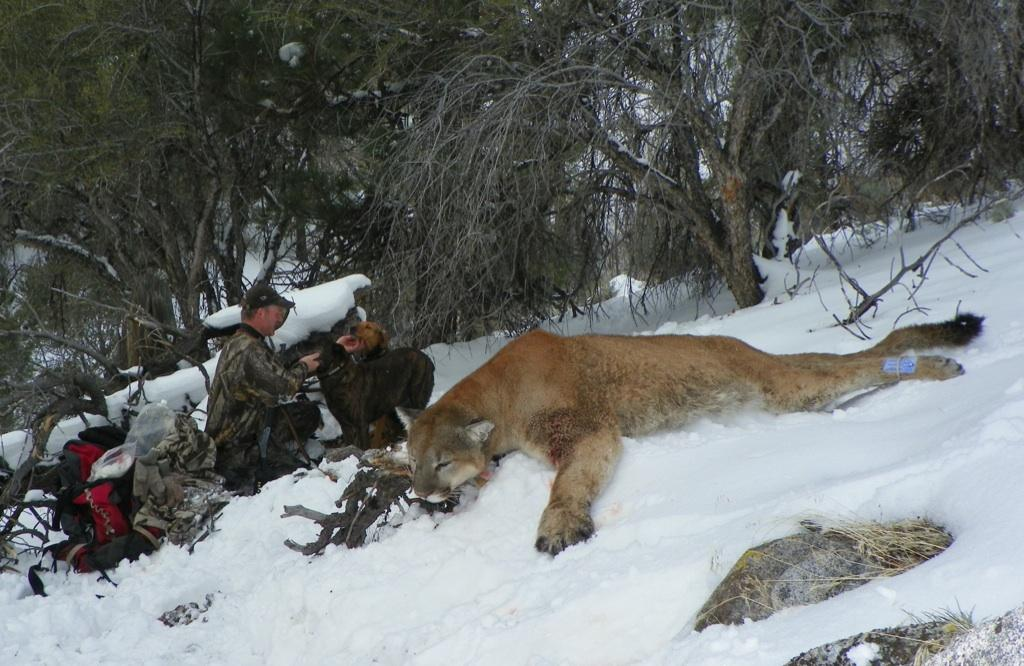 A hunted mountain lion (Puma concolor) in Nevada, USA.